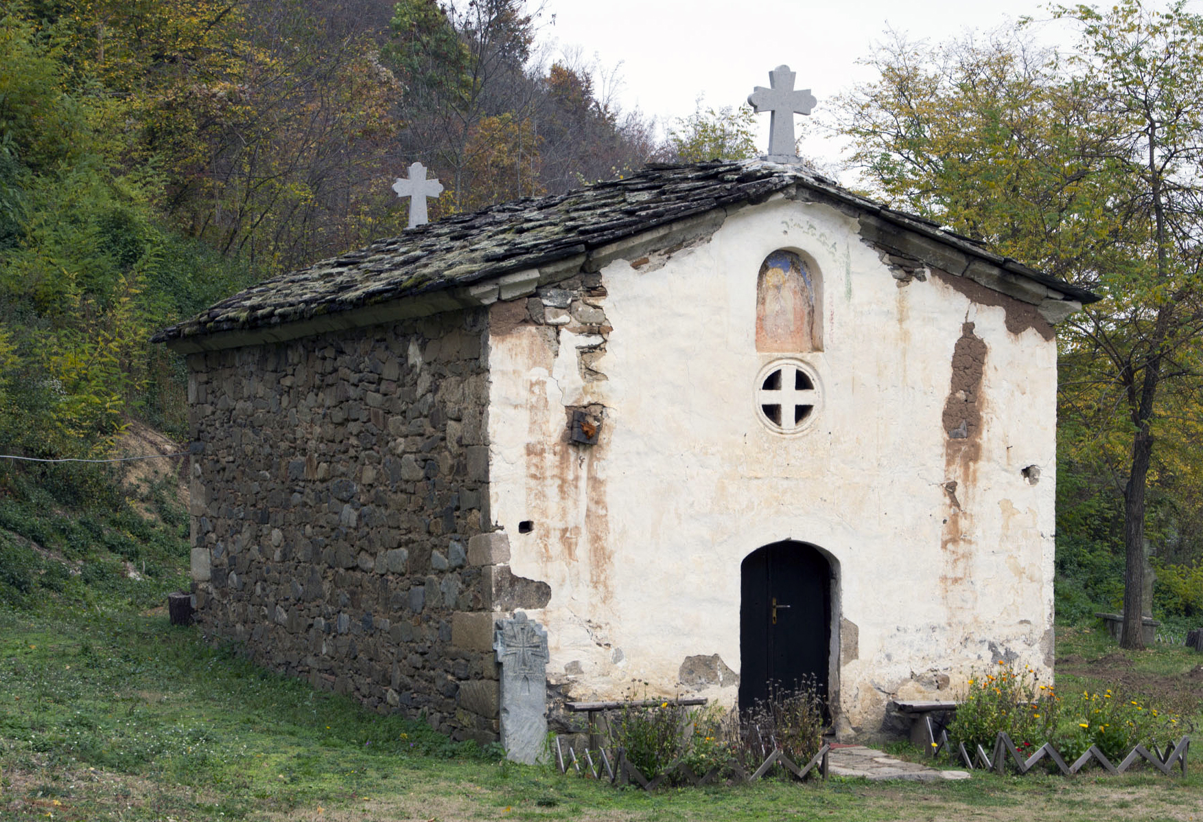 Monastery Kacapun near Vladičin Han